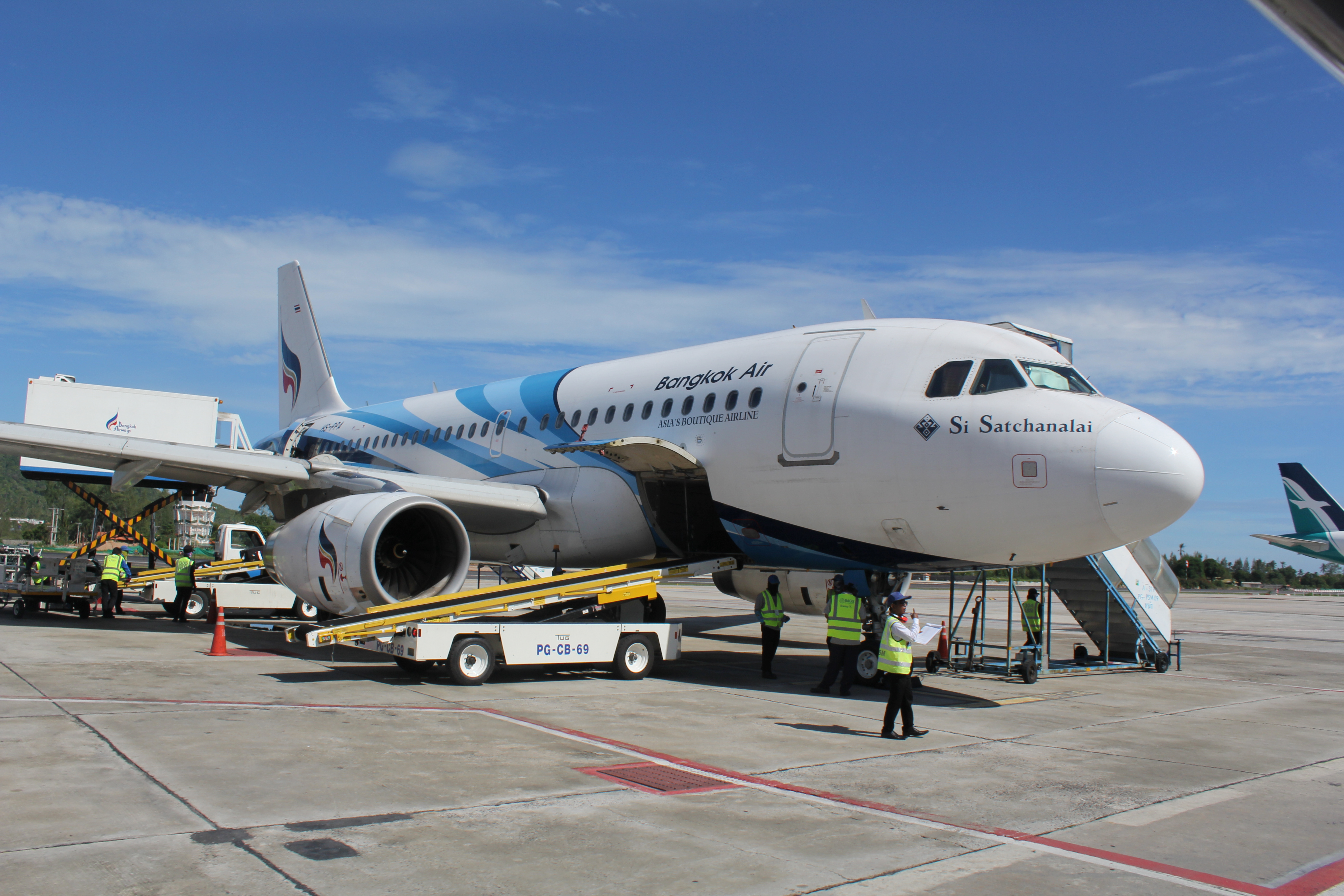 Bangkok Airways A319 (HS-PPA) at Koh Samui Airport in July 2014